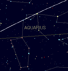 A star map of the Aquarius constellation